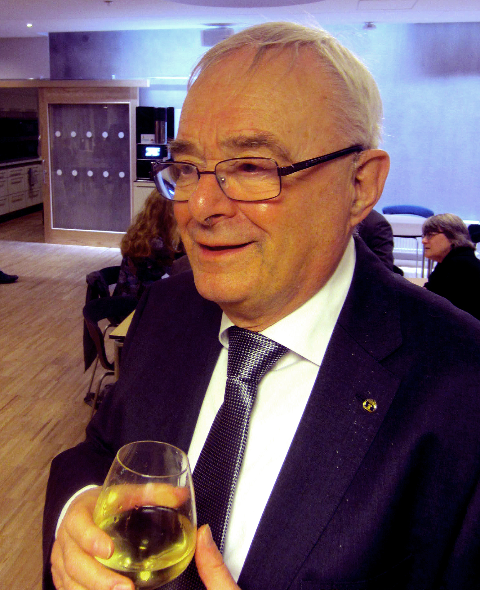 Professor Hans Andersson, Lund University.